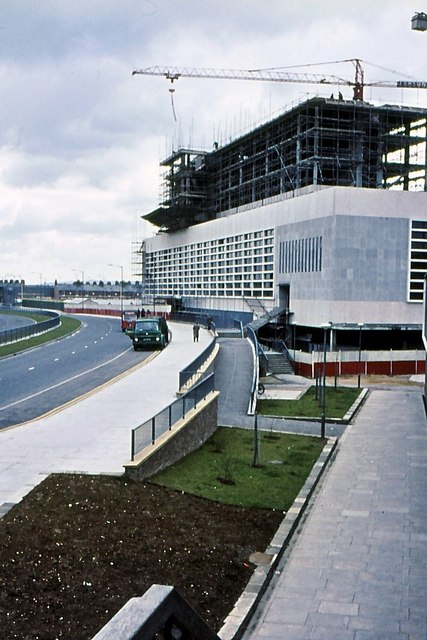 The new Swindon takes shape - One of the first new developments in the town centre in the 1960's was the construction of Fleming Way and the Parade shopping centre which linked this road with Bridge Street & Regent Street. At the Fleming Way end was the Bon Marche department store [later Debenhams] with a hotel development behind [Wiltshire Hotel]. Above the department store is a number of floors of office accomodation, first used by Hambro Life/Allied Dunbar and then Zurich Financial Services.